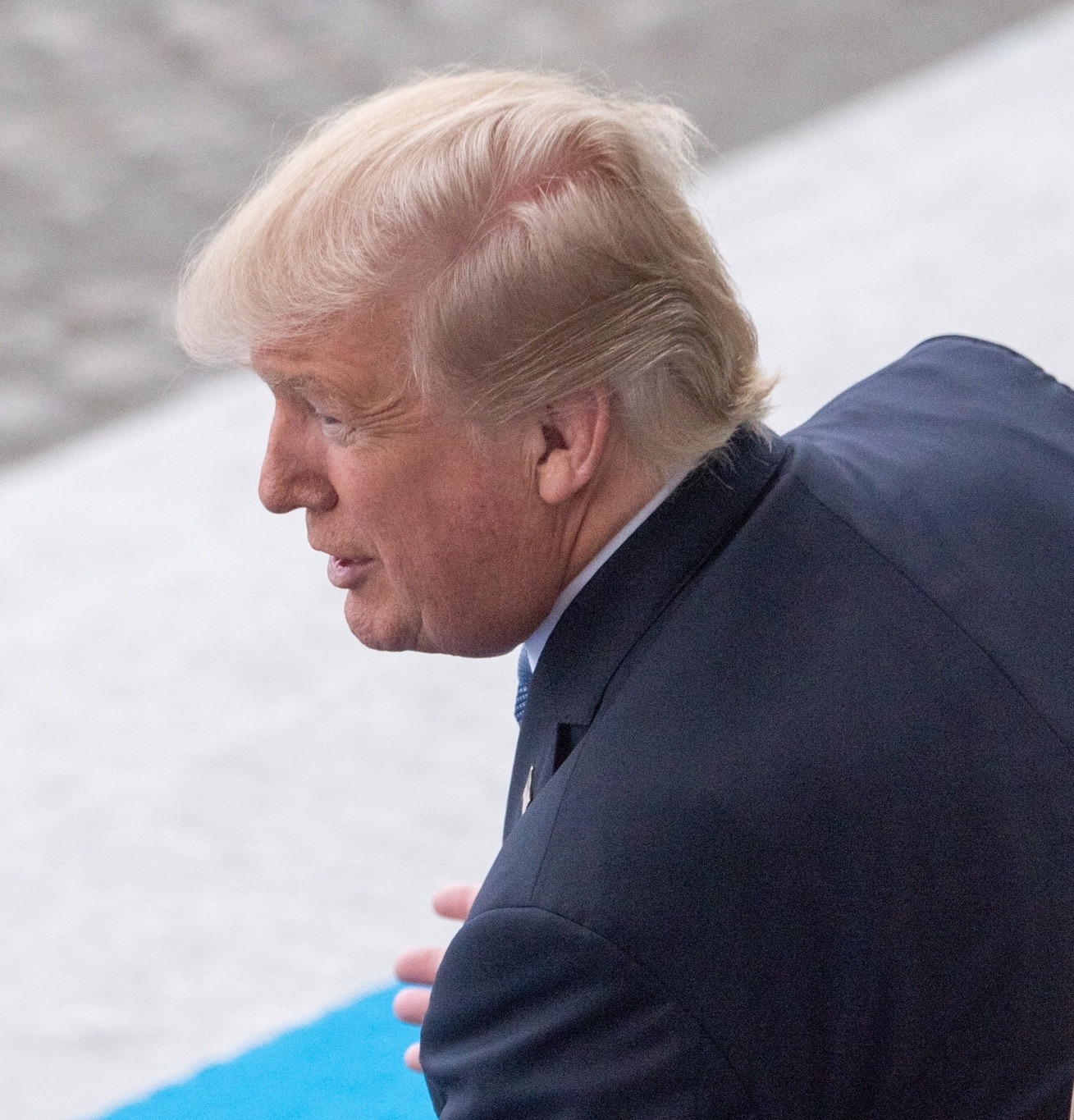 Donald Trump hairstyle closeup, July 2017.